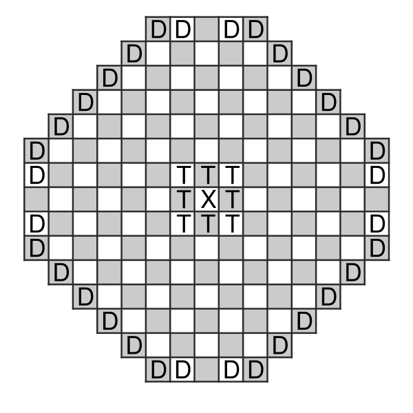 Created by myself (Alan De Smet) using Inkscape 0.43. I hereby release this image into the public domain. Inspired by this image at BoardGameGeek. (This is version 2: I fixed the image size.) I created this using the font Impact for the characters, but Inkscape won't embed the font into the SVG (or at least I don't know how). I'm hesitant to convert the font to curves as it will make it harder for others to edit.